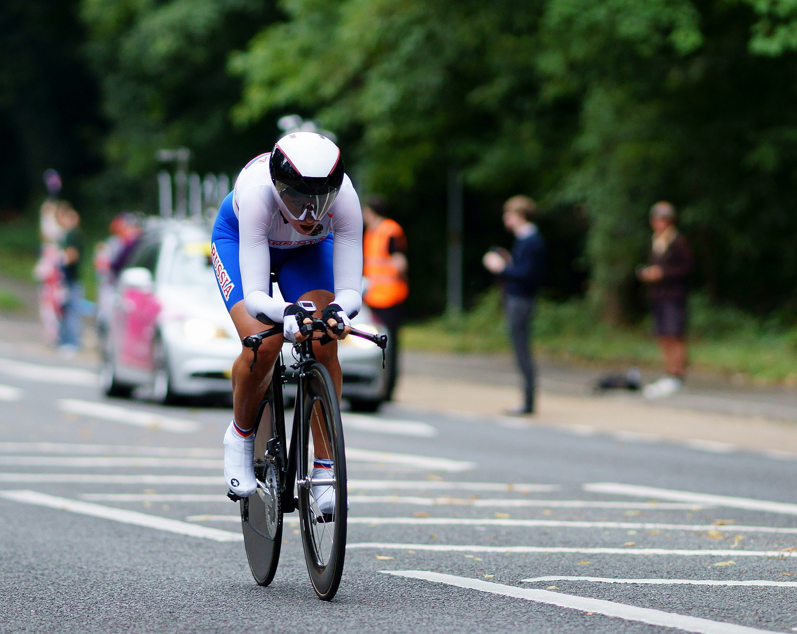 The Russian rider, during the Olympic Games 2012 time trial. Olga followed up her bronze medal in the road race, with bronze in the time trial.